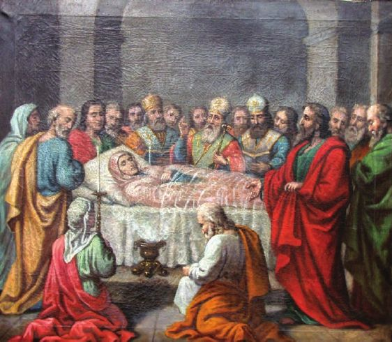 Adormirea Maicii Domnului din biserica din Arpătac (Araci)